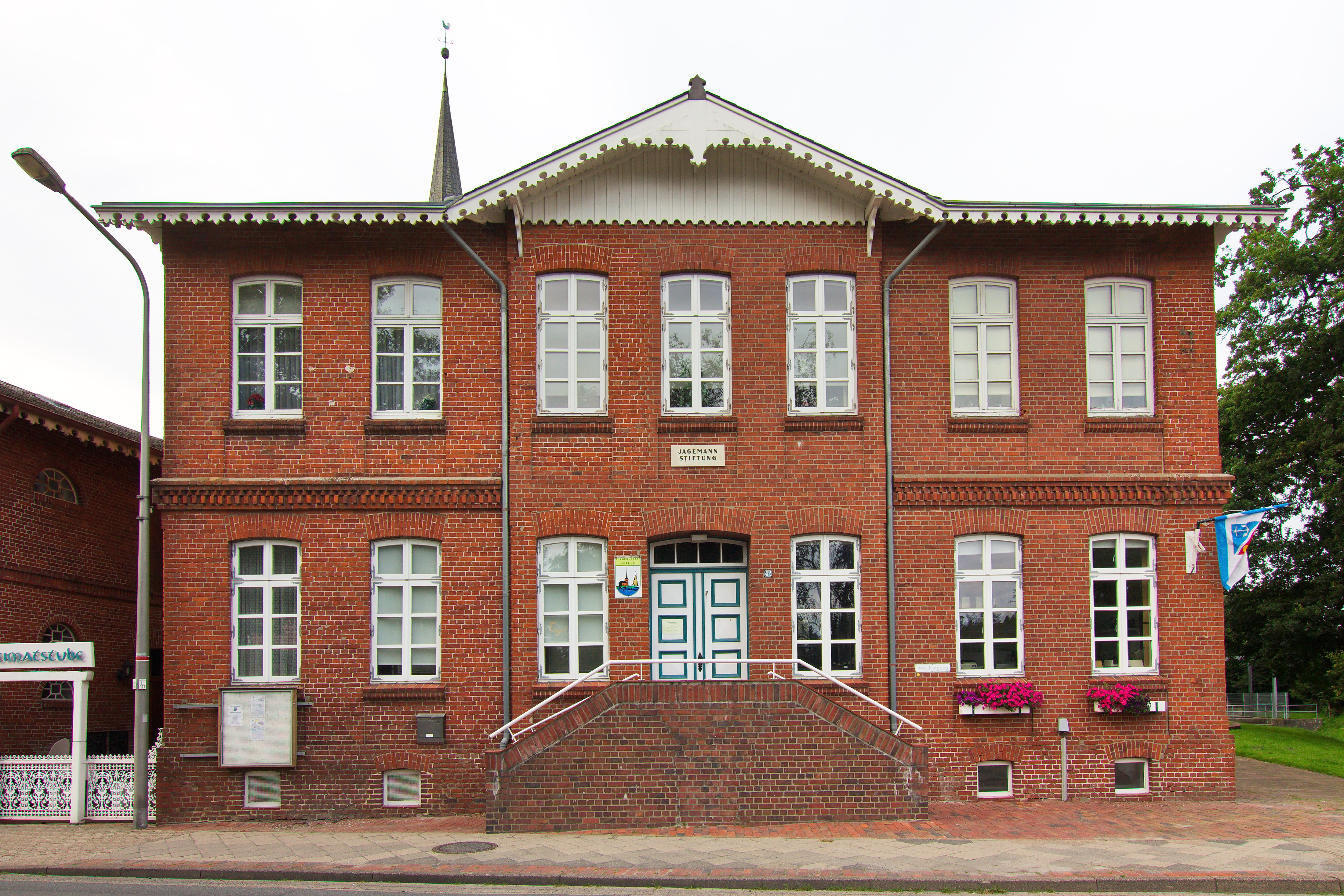 Heimatmuseum in Assel (Drochtersen), Niedersachsen, Deutschland